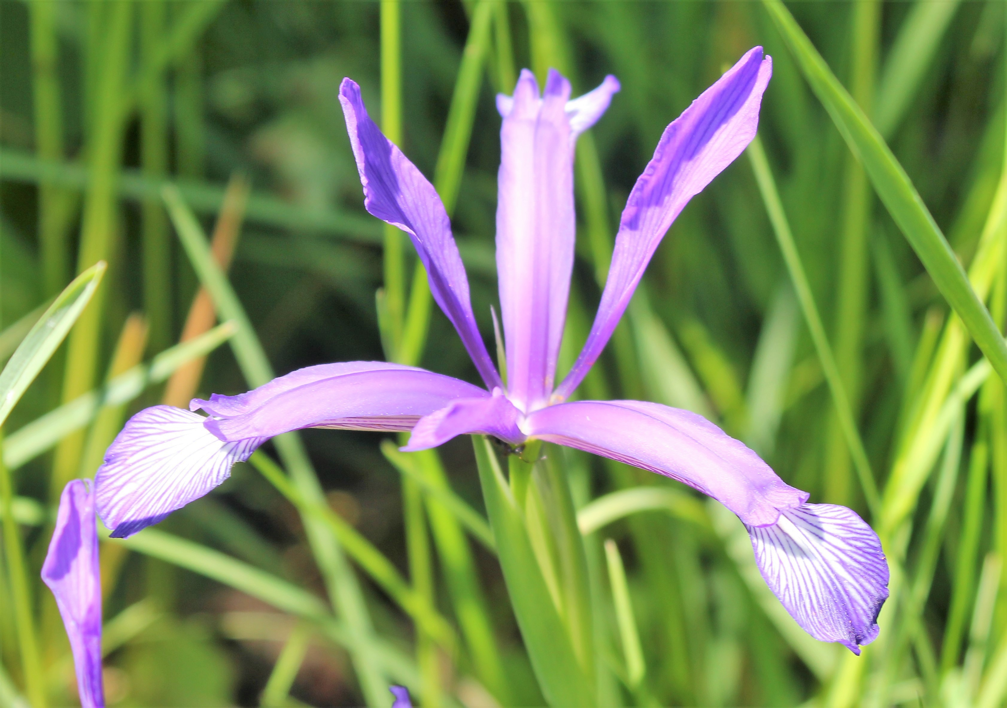 Iris sintenisii flower